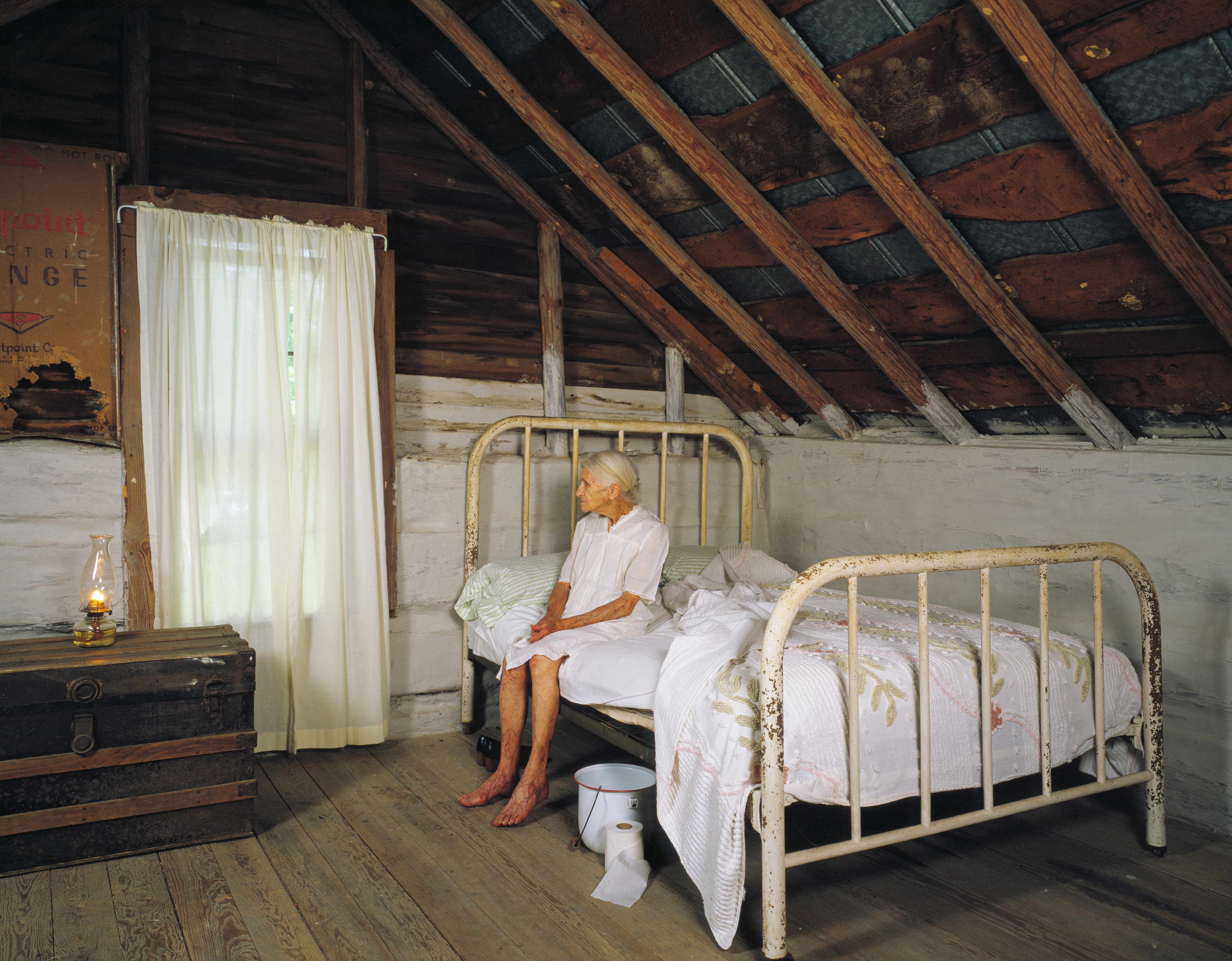 Kate Carter, on her 90th birthday, poses for photographer Carol M. Highsmith in the log cabins in North Carolina, United States, where Highsmith's great-grandfather and grandfather, Pleasant Jiles Carter (1847-1931) and Yancey Ligon Carter (1873-1947), were born and lived in Wentworth, North Carolina.